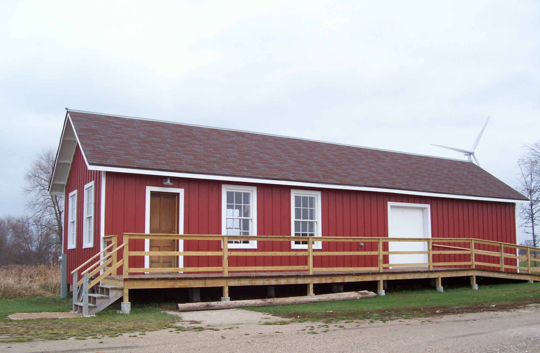 The train depot for Malone, Wisconsin. After being purchased by the Malone Area Heritage Museum, it was moved across the street in 2005 for displaying area artifacts. A turbine from the Blue Sky Green Field Wind Farm is visible above the right side of the depot.